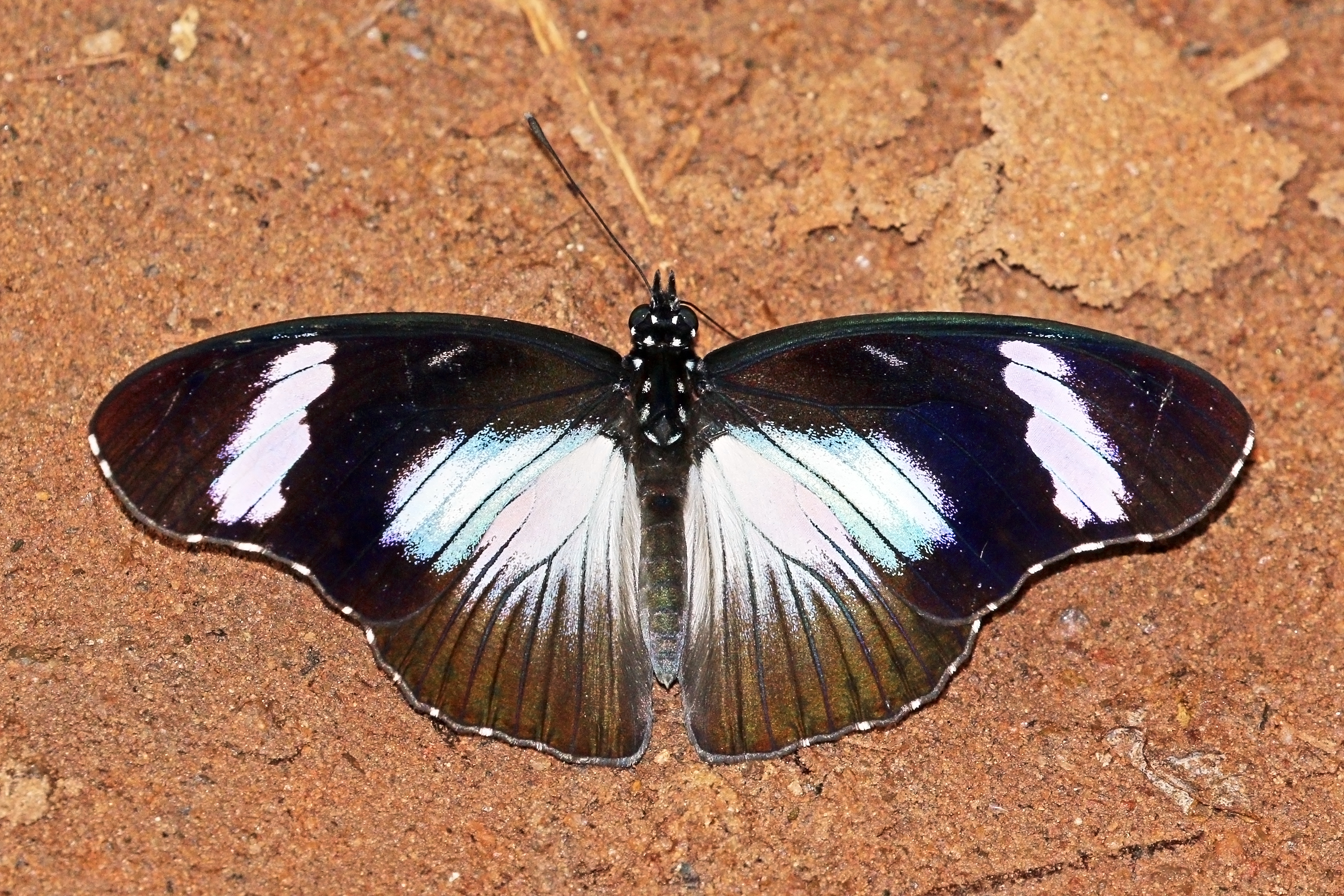 Variable eggfly (Hypolimnas anthedon anthedon) male, Bobiri Forest, Ghana